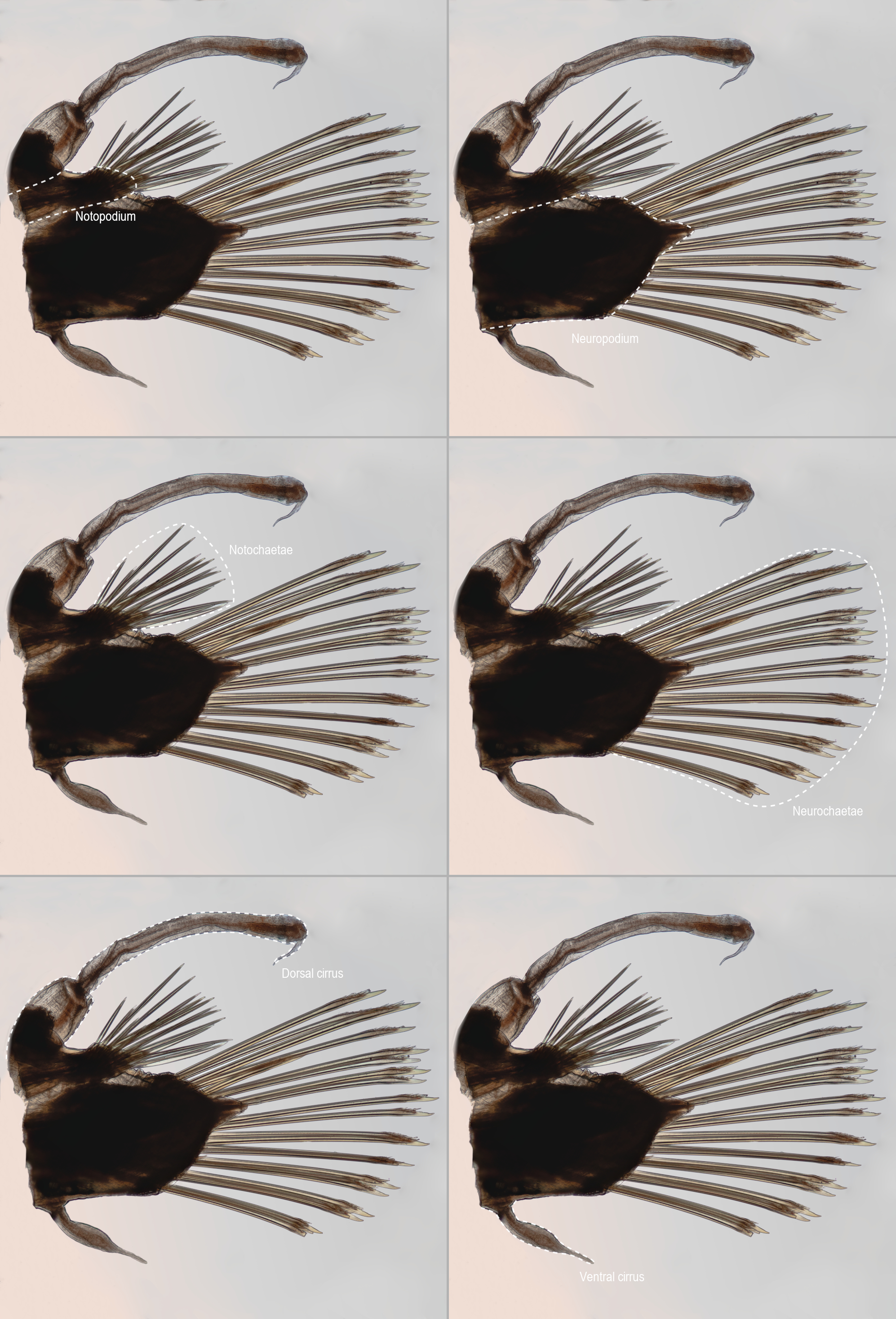 A plate showing the different anatomical features of a representative annelid parapodium. Parapodium from Lepidonotus oculatus and is a Museums Victoria specimen.